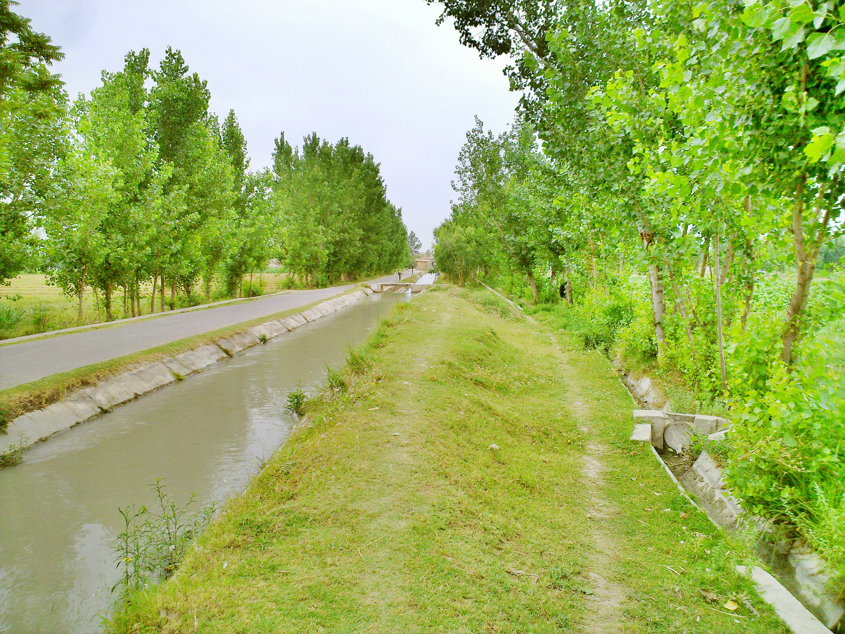 This is koper road which is connected to Badragga